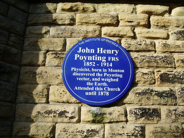 Unitarian Church, Monton, Blue plaque To be found on the south side of the church John_Henry_Poynting